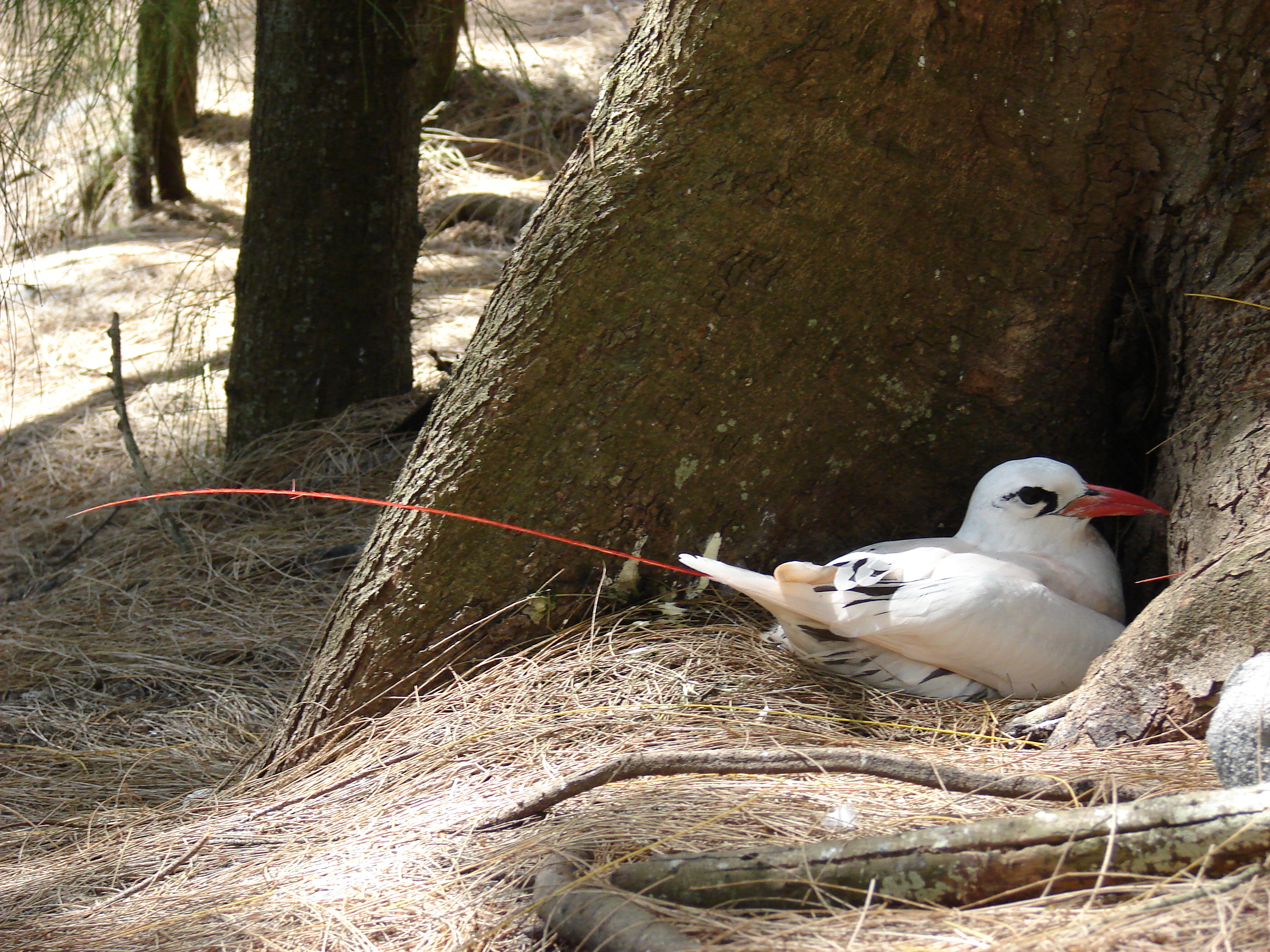 Casuarina equisetifolia (needle duff with red tailed tropicbird). Location: Midway Atoll, Marine barracks Sand Island